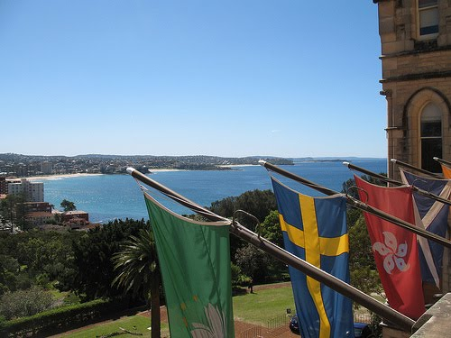 A picture of the view from the ICMS main campus building overlooking Manly Beach.